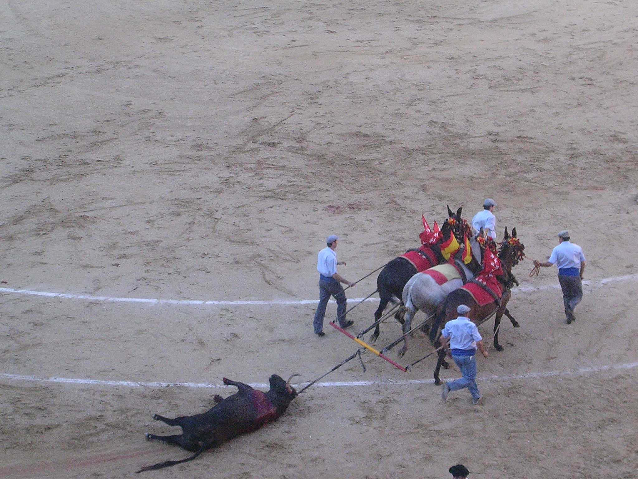 Bullfighting in Madrid, Spain